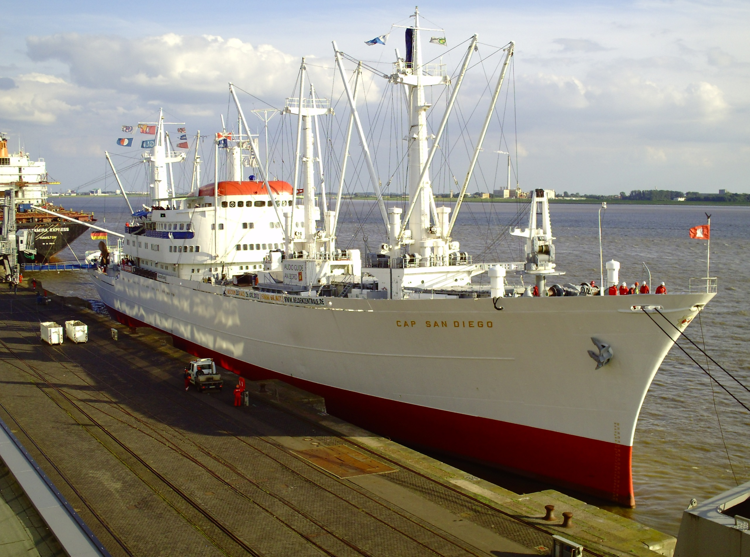 Arrival of the museum ship Cap San Diego at the Columbus Cruise Center in Bremerhaven, Germany